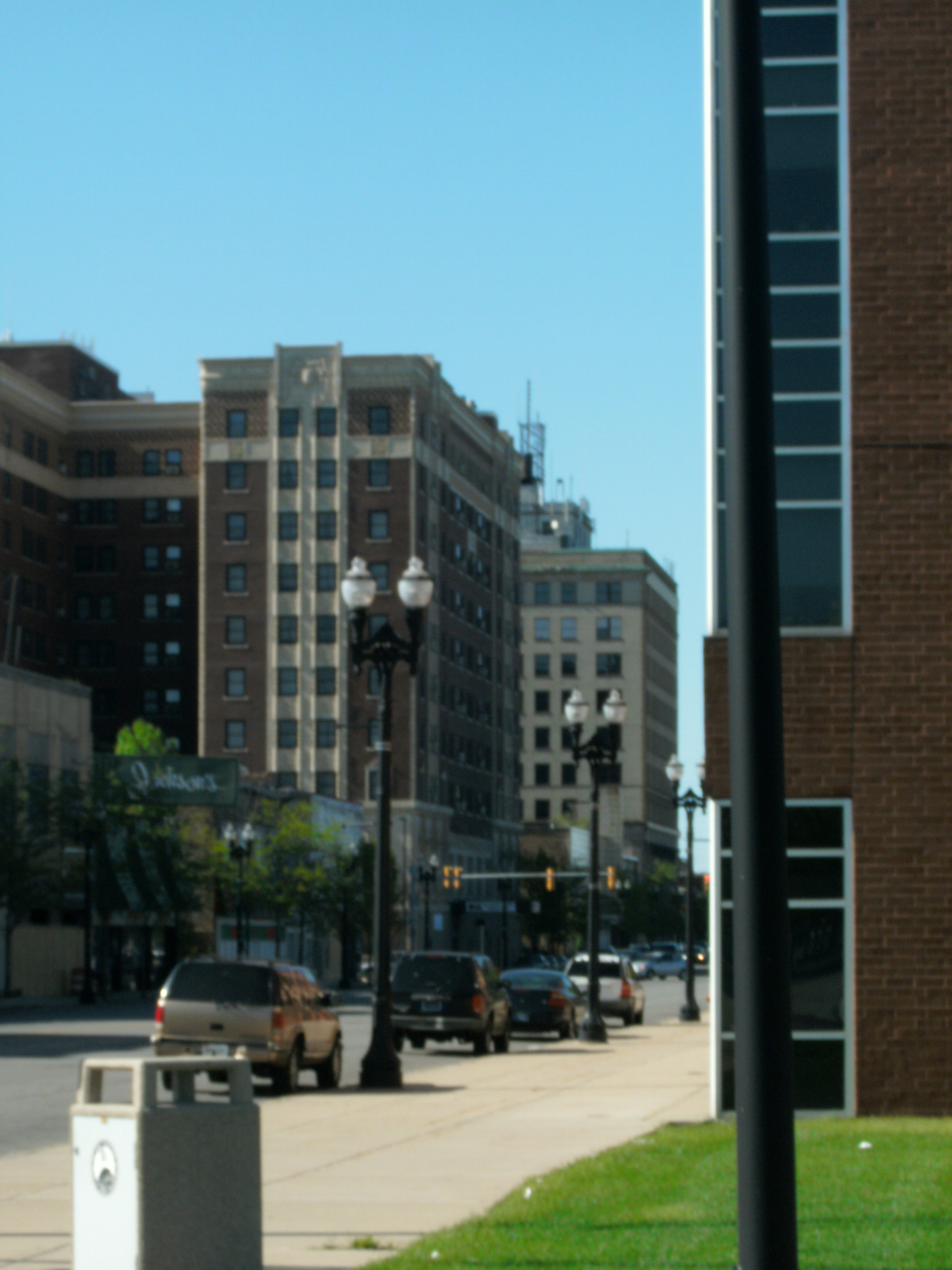 Downtown Gary, Indiana